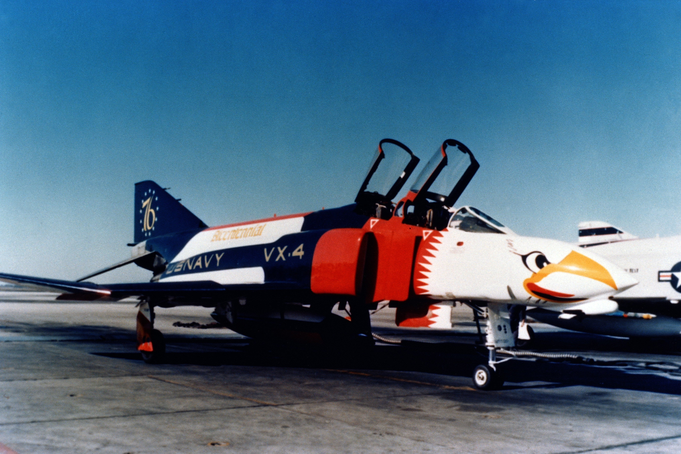 Original source caption:A right front view of an Air Test and Evaluation Squadron 4 (VX-4) F-4 Phantom II aircraft parked on the flight line. The aircraft has been painted in a Bicentennial theme.Location: POINT MUGU, CALIFORNIA (CA) UNITED STATES OF AMERICA (USA)Commons user added caption:A rear view of a McDonnell Douglas F-4J Phantom II (BuNo 153088) of U.S. Navy Air Test and Evaluation Squadron VX-4 parked on the flight line at Naval Air Station Point Mugu, California (USA) on 1 March 1976. The aircraft has been painted in a Bicentennial theme, comemmorating the 200th anniversary of the American Revolution. Note that the F-4J is fitted with an infra-red seeker under the radar cone normally only used on the F-4B/N.